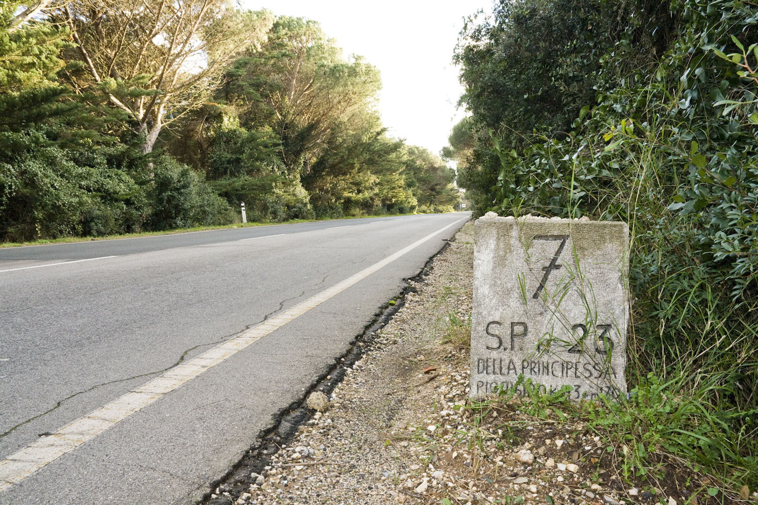 Italy, provincial road 23 "della principessa" in the Province of Livorno (Leghorn) in Tuscany. Section with milestone.